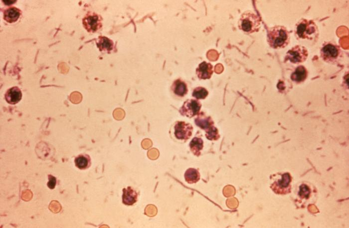 This photomicrograph revealed stool exudates in a patient with shigellosis, which is also known as “Shigella dysentery”, or “Bacterial dysentery”. Usually, those who are infected with Shigella develop diarrhea, which is often bloody, fever, and stomach cramps starting a day or two after they are exposed to the bacterium. Shigellosis usually resolves in 5 to 7 days.